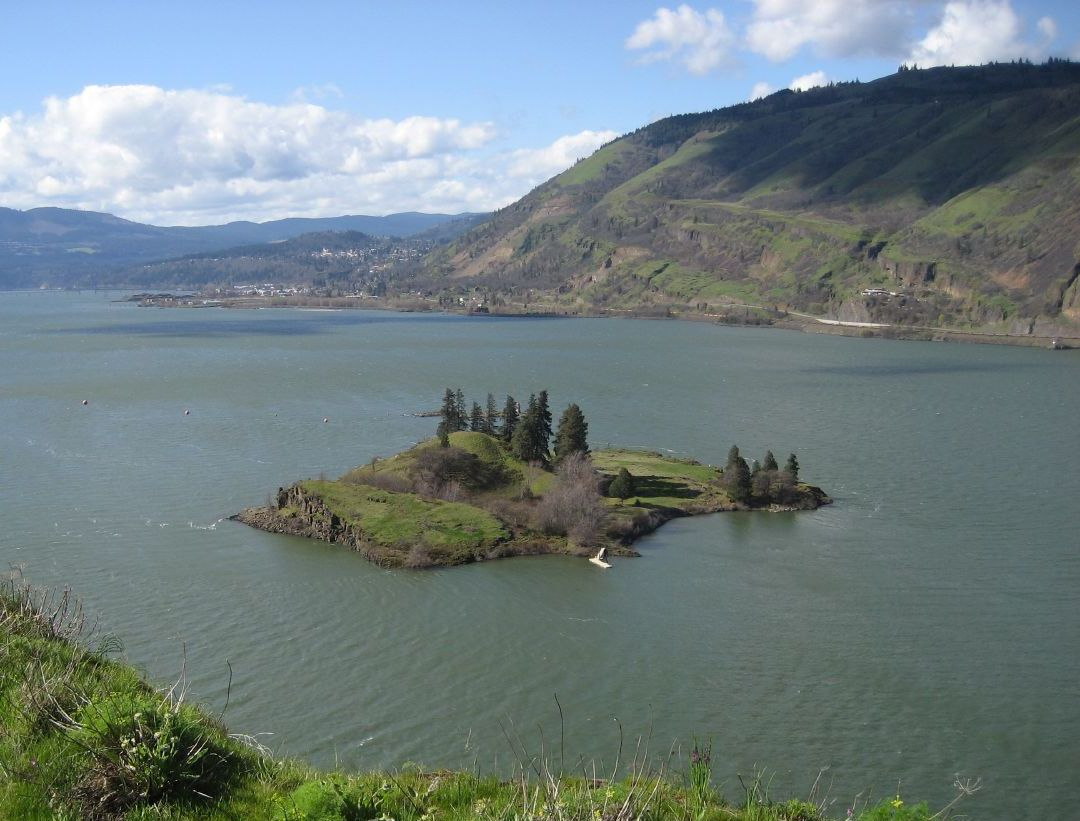 Eighteenmile Island in Oregon, USA, taken from a viewpoint on the Historic Columbia River Highway.